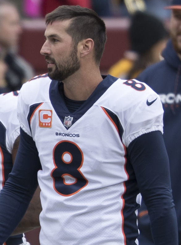 Broncos at Redskins 12/24/17